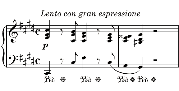 Intro from the Nocturne in C sharp minor by Fryderyk Chopin (1830).